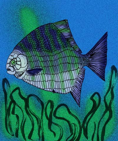 Reconstruction of the semionotid fish, Sargodon tomicus, from the Late Triassic of Italy